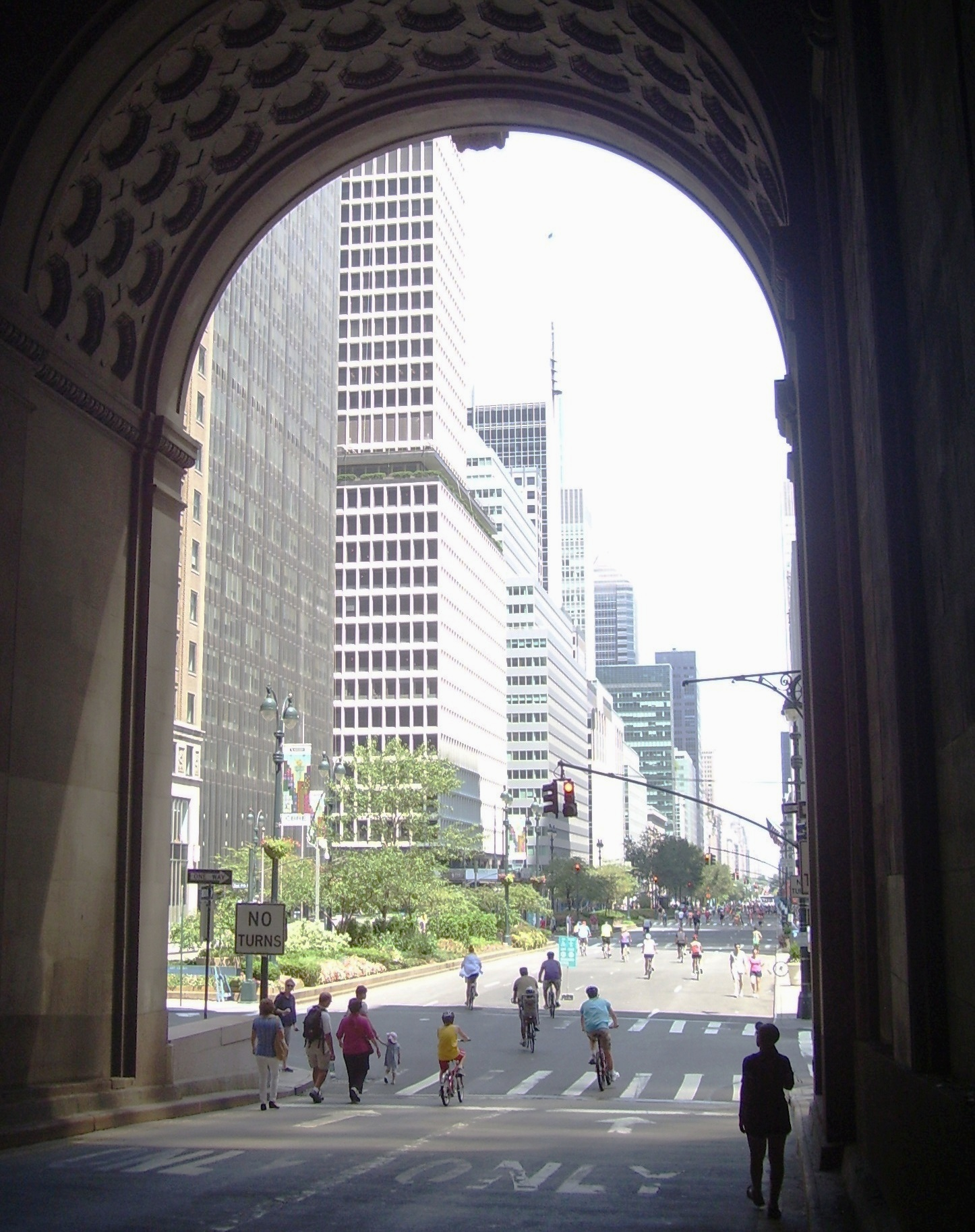 Uptown traffic exits the Park Avenue Viaduct through the eastern portal of the Helmsley Building during "Summer Streets", when seven miles of New York city streets are closed to vehicular traffic.